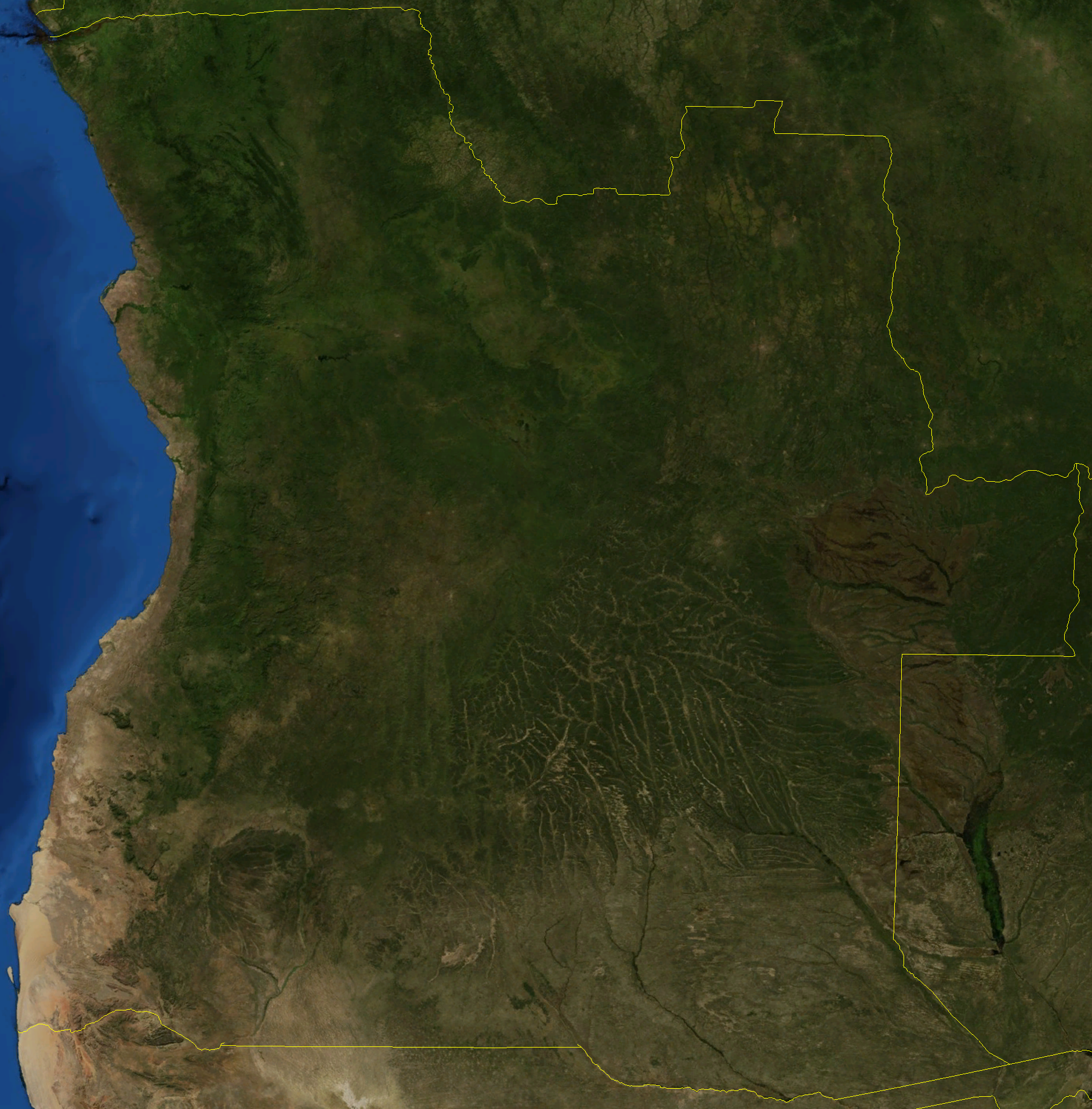 Satellite image of Angola. Blue Marble Next Generation with bathymetry layer.